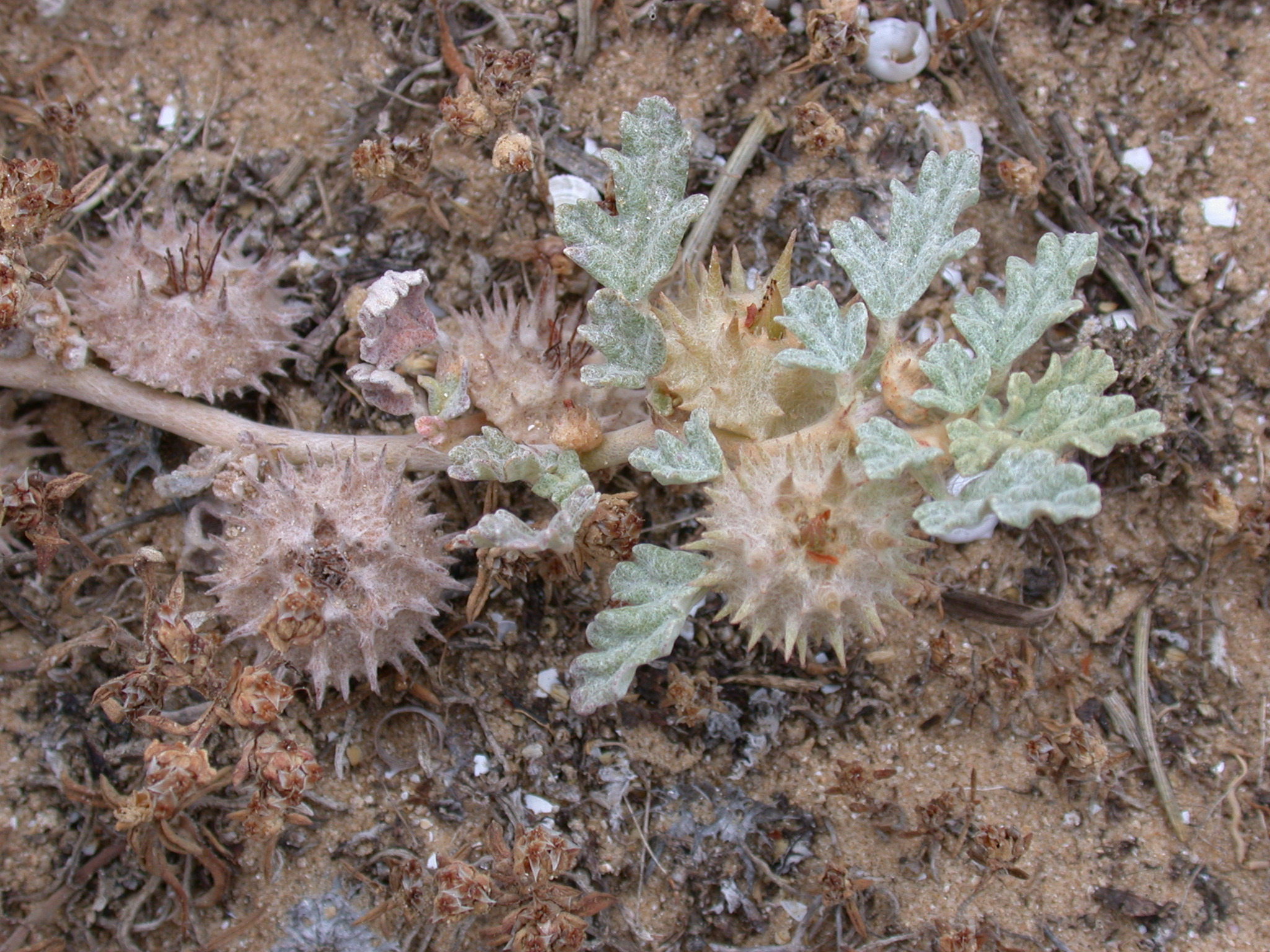 Neurada procumbens L., Netanya Beach, Israel, May 2, 2009.